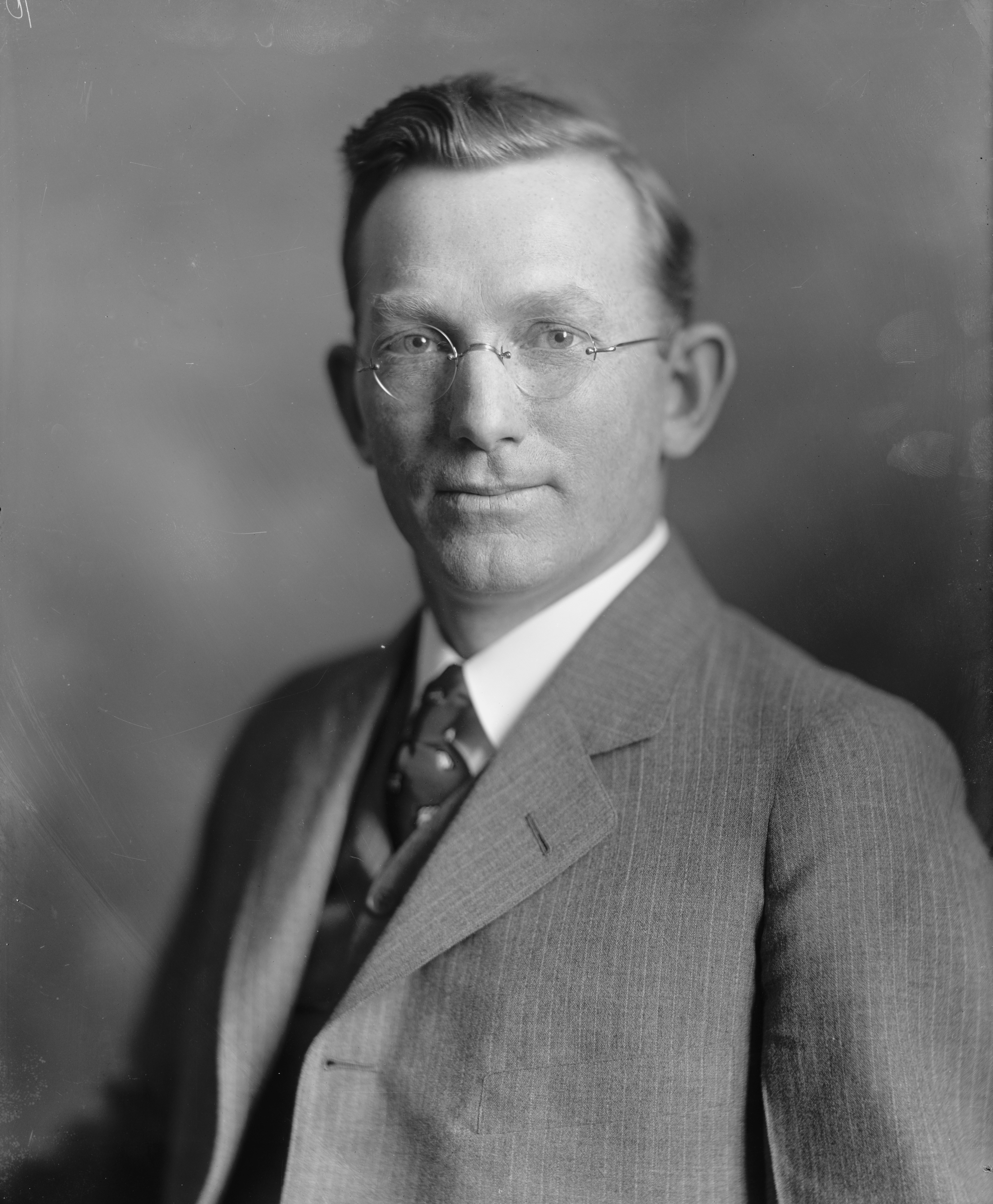 Title: BRATTON, SAM. SENATOR Abstract/medium: 1 negative : glass ; 8 x 10 in. or smaller